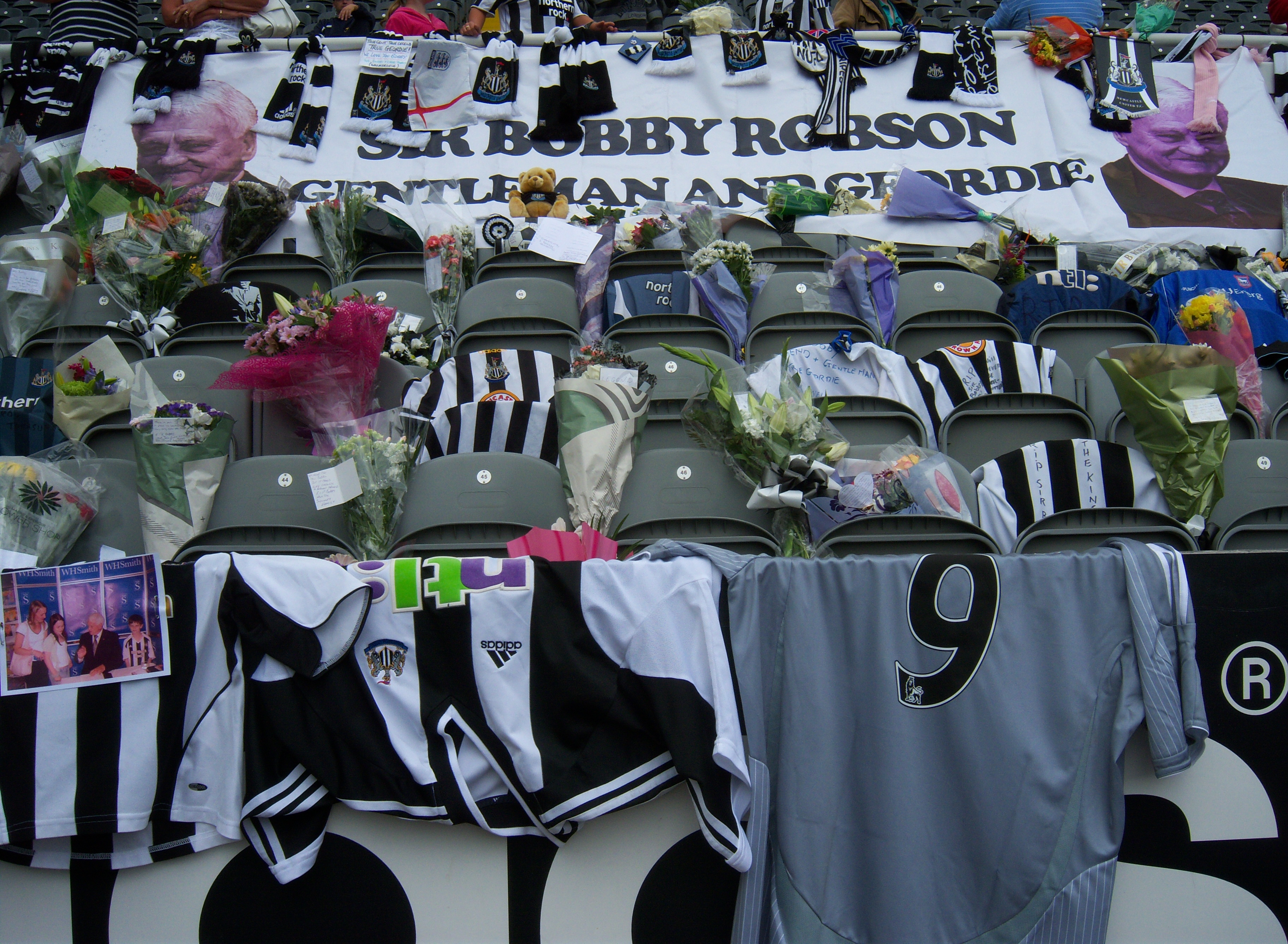 Tributes to Sir Bobby Robson laid by fans inside St James' Park in Newcastle upon Tyne the day after it was announced he had died.